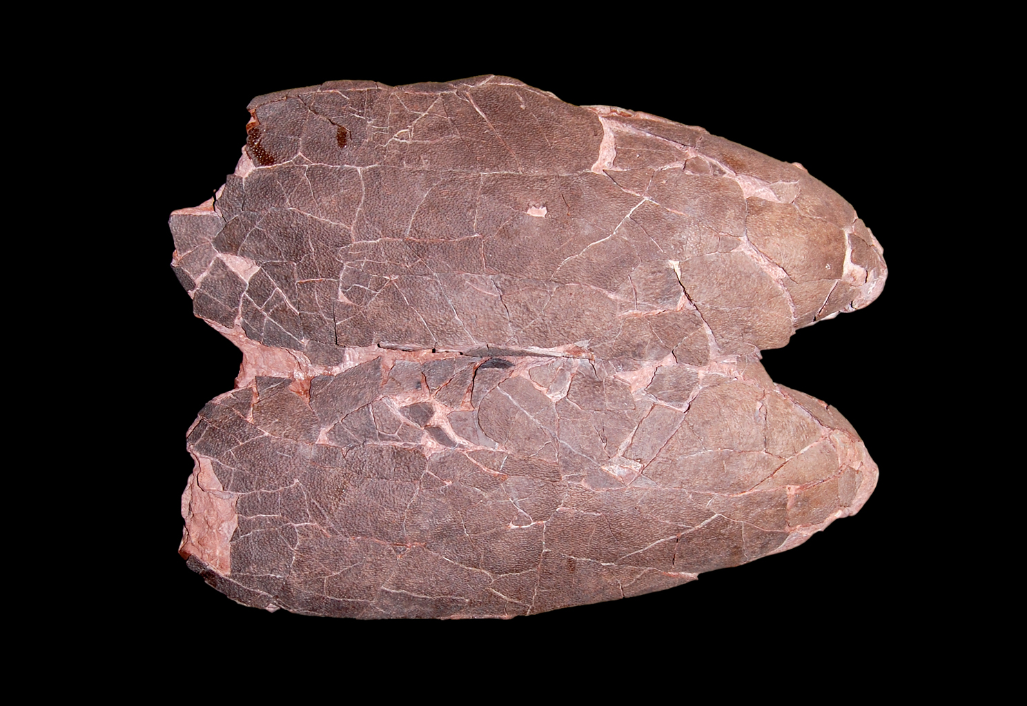 Macroelongatoolithus egg assigned to Tarbosaurus, Naturhistorisches Museum Wien